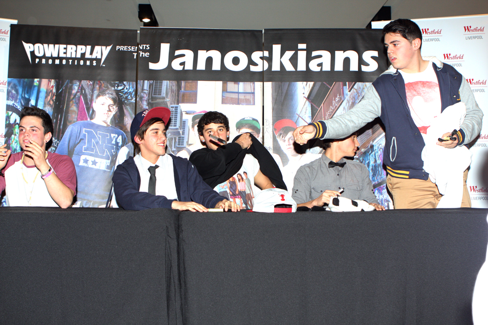 Janoskians appearance at Liverpool, Westfield